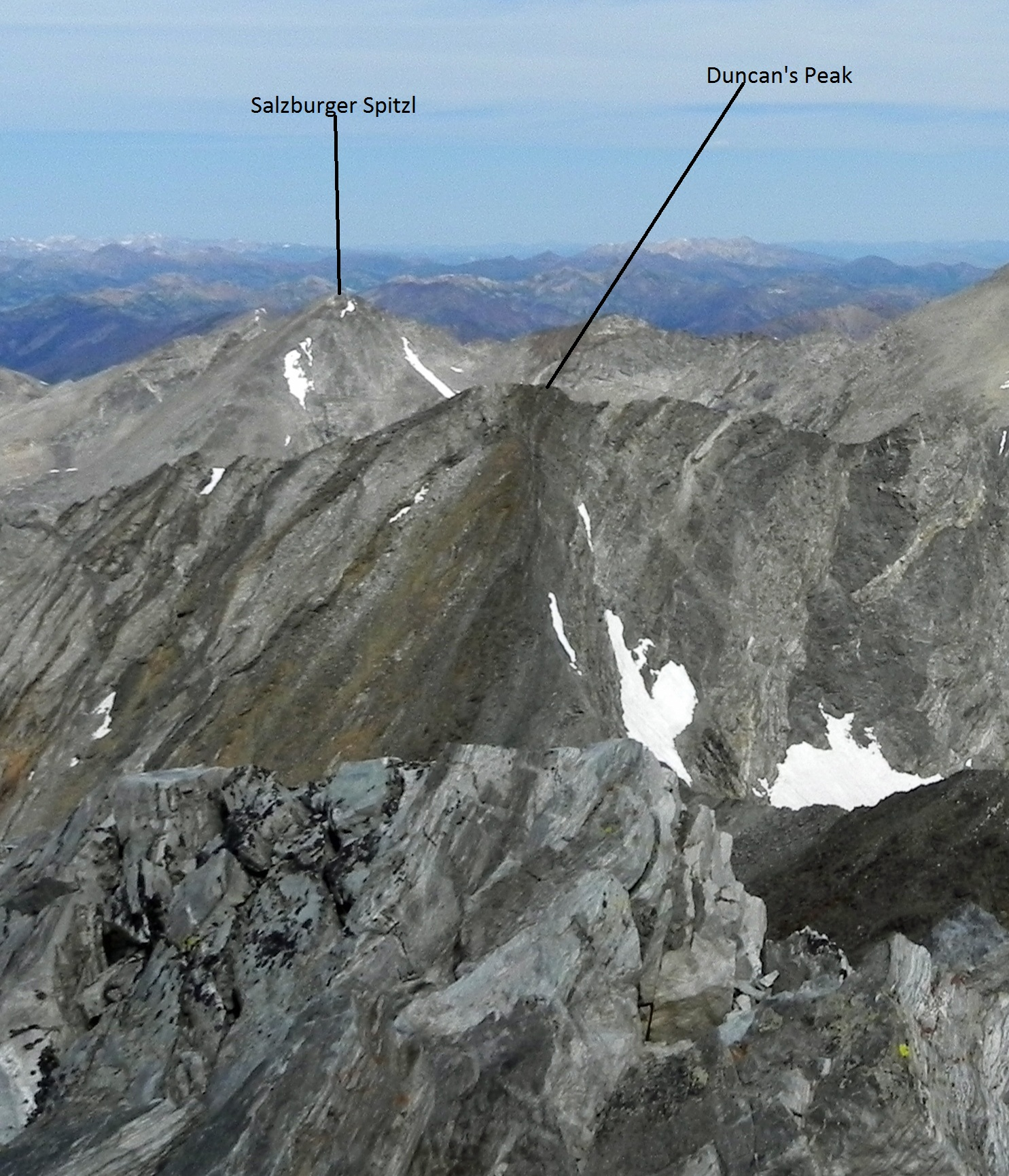 Duncan's Peak and Salzburger Spitzl in the Pioneer Mountains of Idaho viewed from the summit of Hyndman Peak.